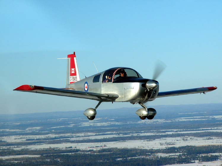 American Aviation AA-1 Yankee Clipper (C-FBVQ) in Flight near Ottawa Ontario 2005